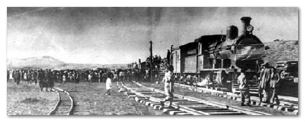 The first train to arrive to San Carlos de Bariloche.